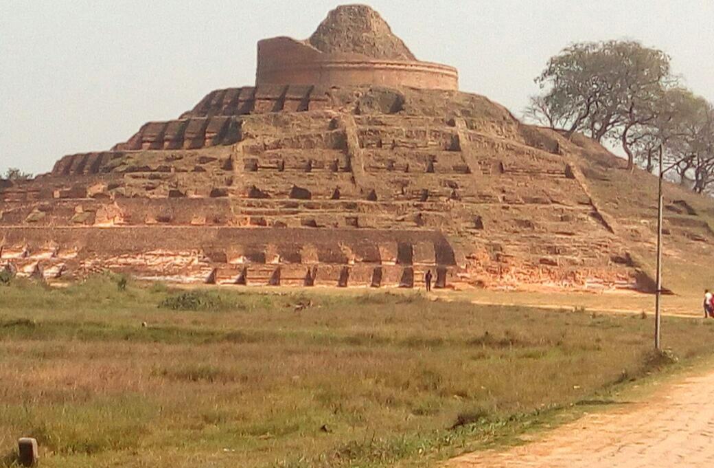 This Stupa dedicated to Lord Buddha has great significance and it is believed to date back to somewhere between 200 AD and 750 AD. It is believed to have been built to honor the site where Lord Buddha must have spent the last days of his journey while preparing to attain Nirvana.